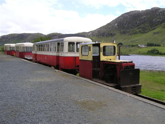 Image of County Donegal's only narrow-gauge railway